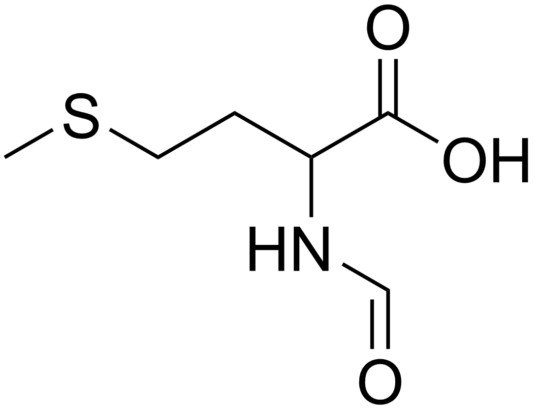 chemical structure of N-Formylmethionine